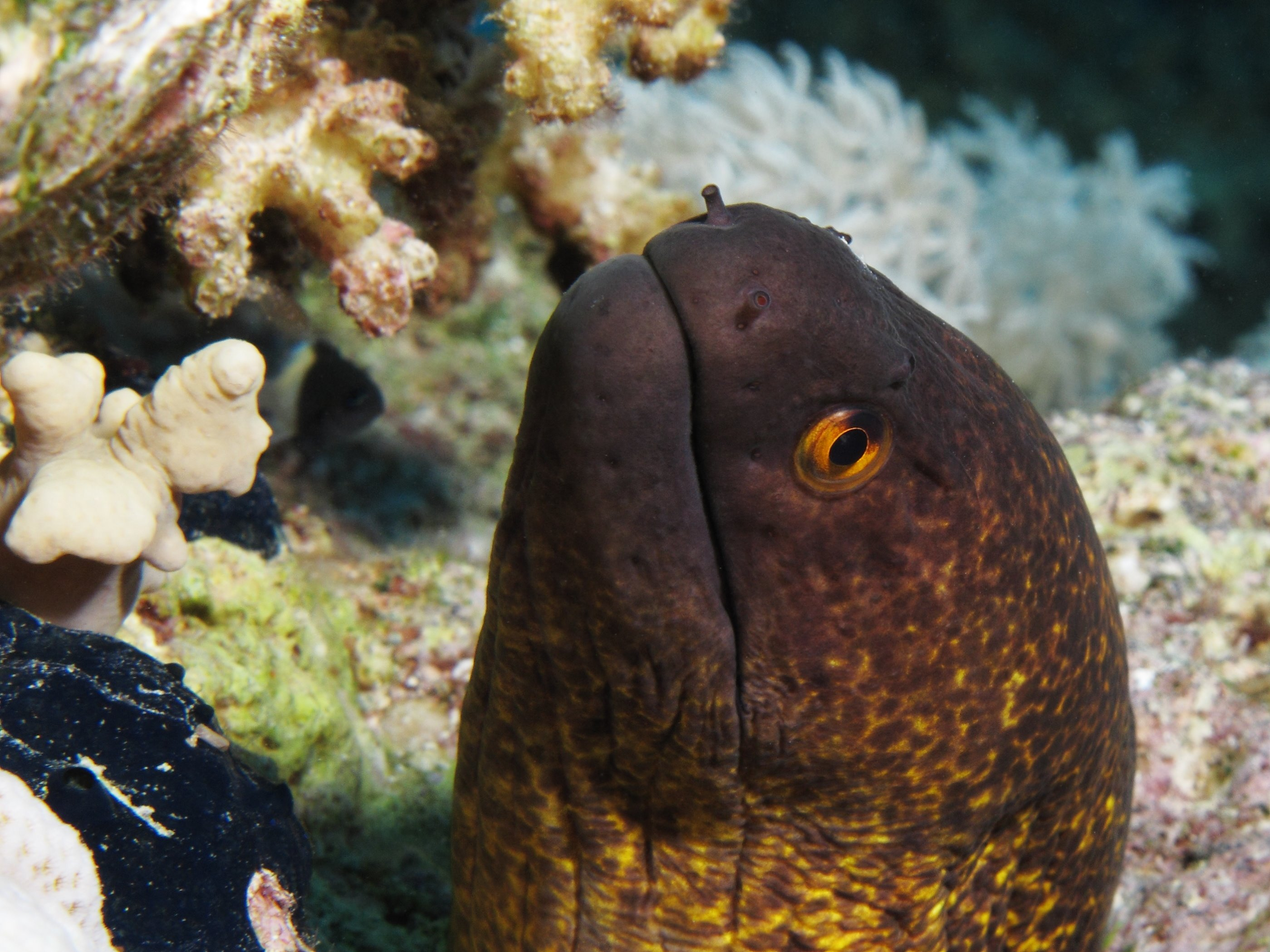 Yellow-edged moray (Gymnothorax flavimarginatus) at Shaab Mahmoud reef (near Sharm el-Sheikh, Egypt)